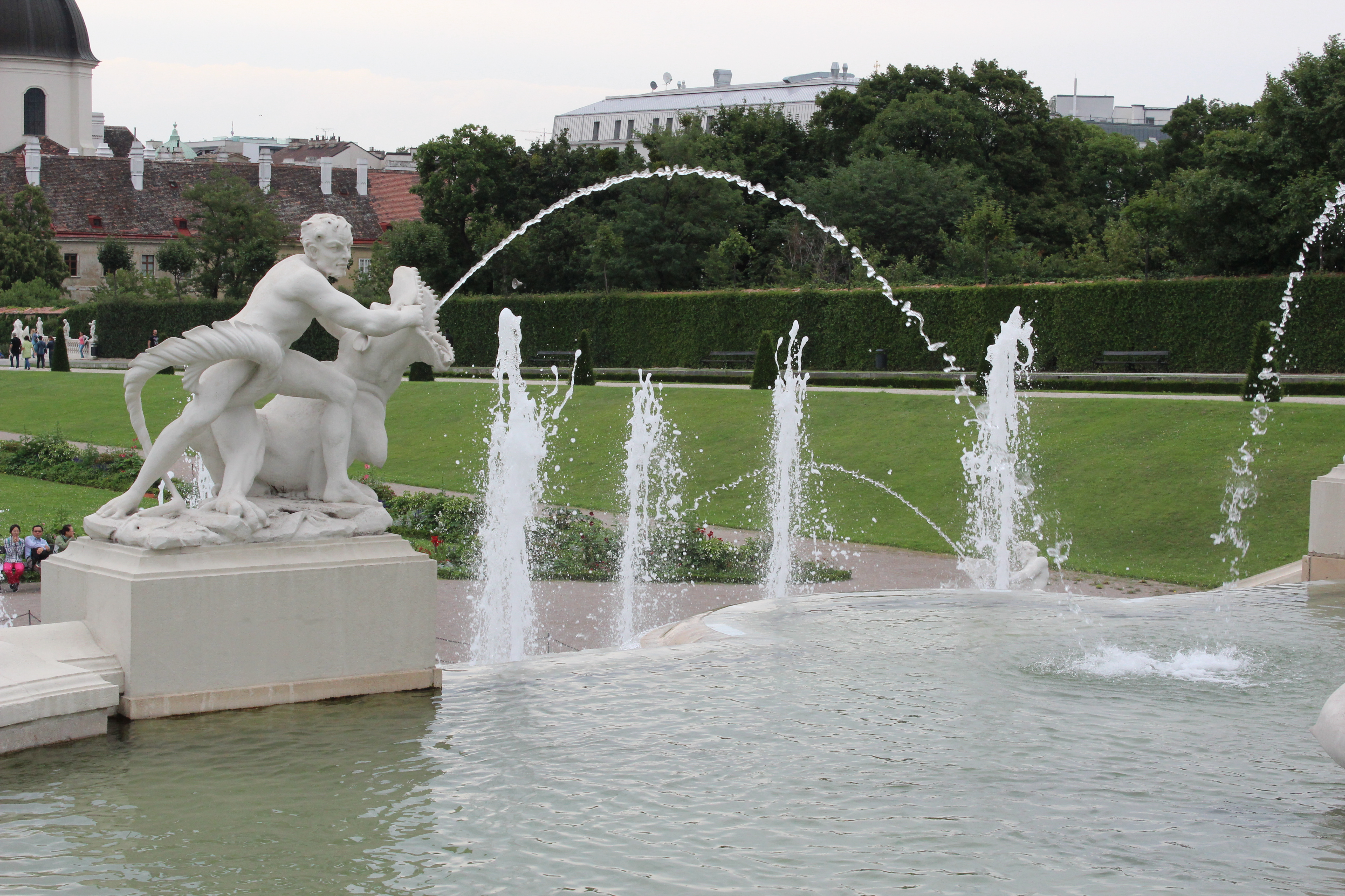 Fountain in the garden of the Belvedere Palace (Vienna, Austria).